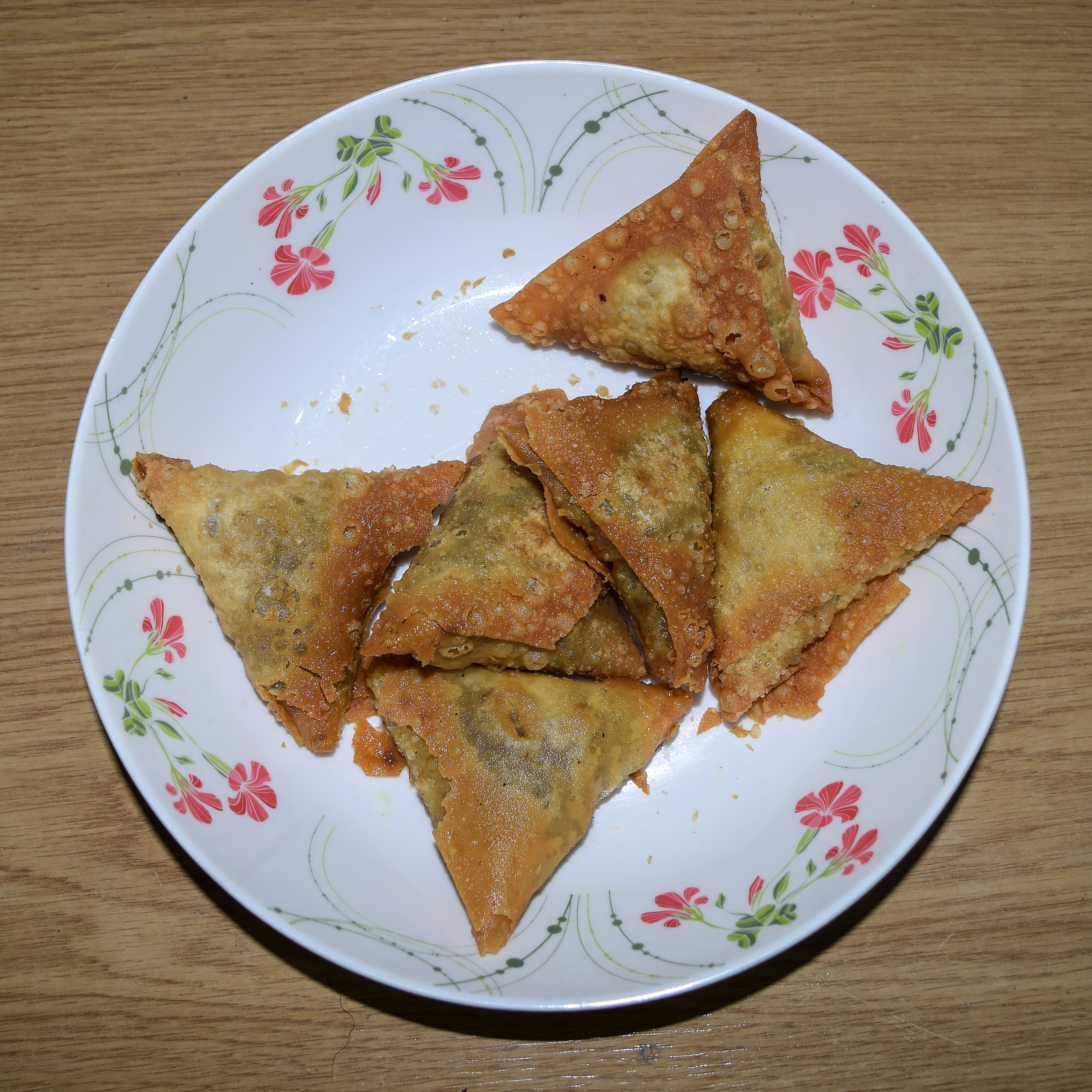 Samosas is a popular food especially in Bangladesh and India; at Wikipedia's 16th Birthday celebration in Chittagong.